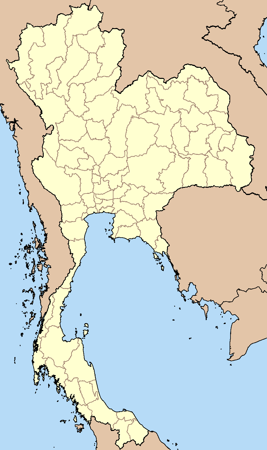 A blank map of Thailand with the provinces outlined.